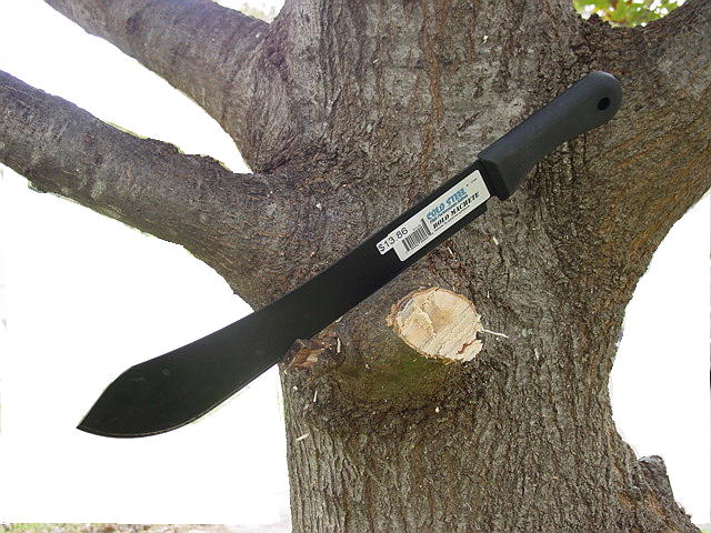 A bolo machete made in South Africa for the Cold Steel Knife company. It is constructed of 1055 carbon steel with a non slip handle